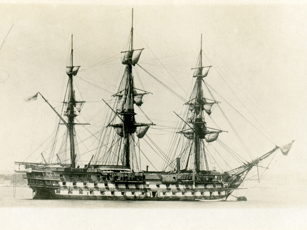 Photo of the HMS London is from my postcard that was printed in circa 1908. I own the postcard at this time. The original photo is from circa 1876.